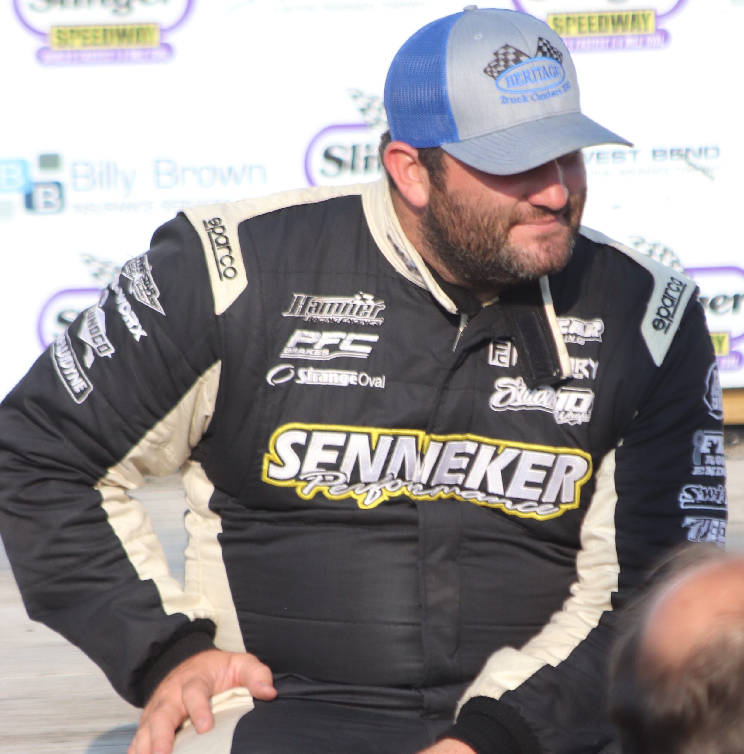 Southern barnstorm driver Bubba Pollard far up north in the 2019 Slinger Nationals.